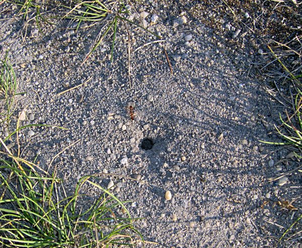 nest of Manica rubida